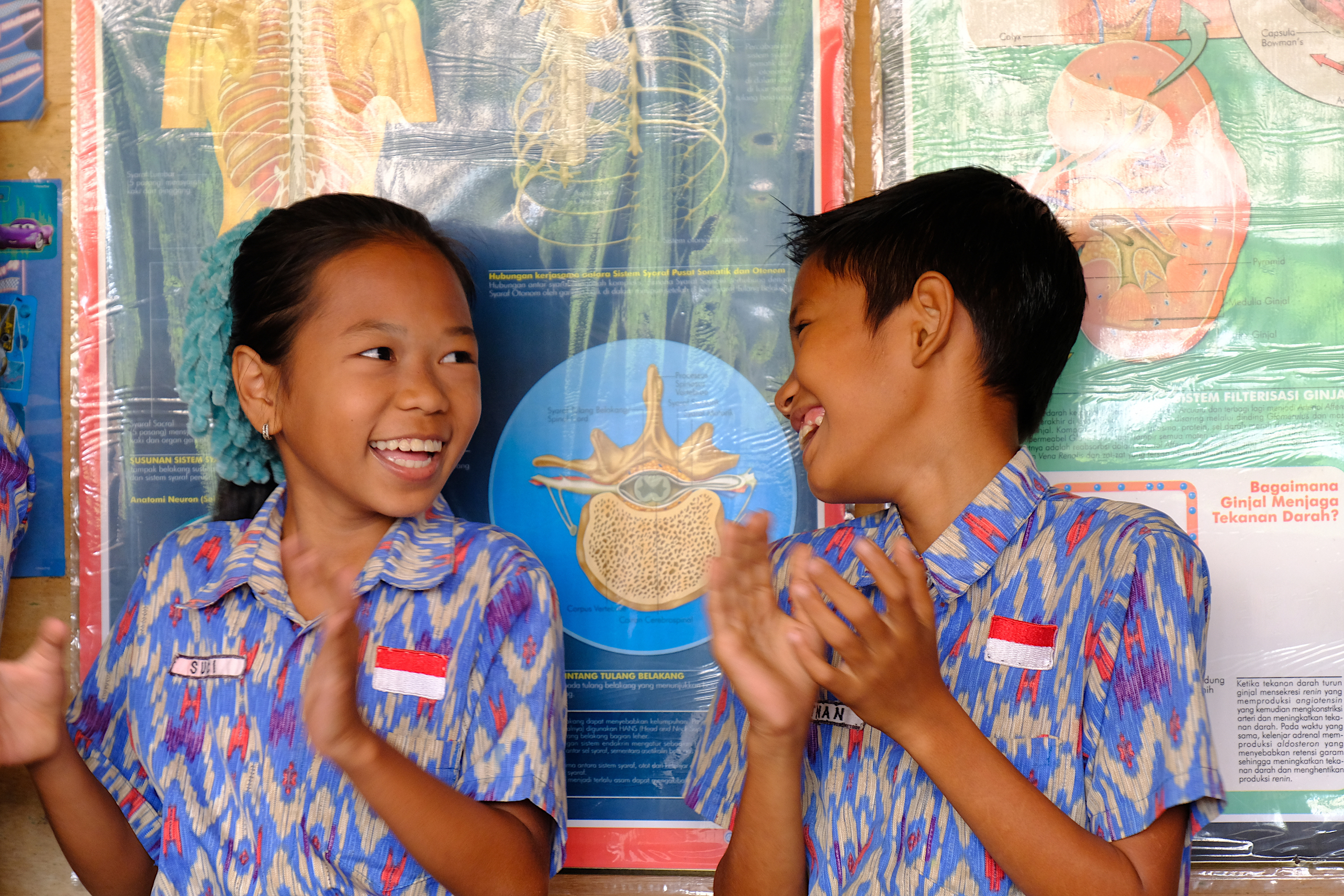 A long term goal of the Rimba Raya project is to provide all children in the concession with an education and (therefore) opportunities for improved livelihood.